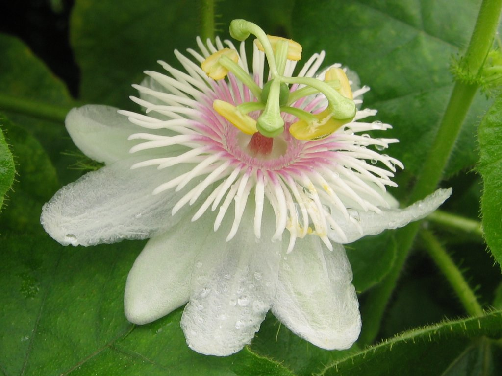 Image of P. Foetida flower growing wild in Salem, India. Source: Vvenka1 nl:Afbeelding:P foetida flower.jpg